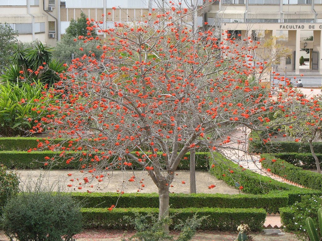 Common Coral tree - Erythrina lysistemon